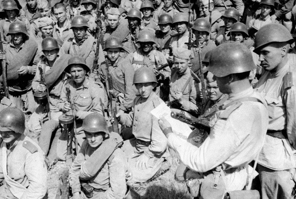 “Before Attack”. Soldiers reading a combat leaflet before attack.